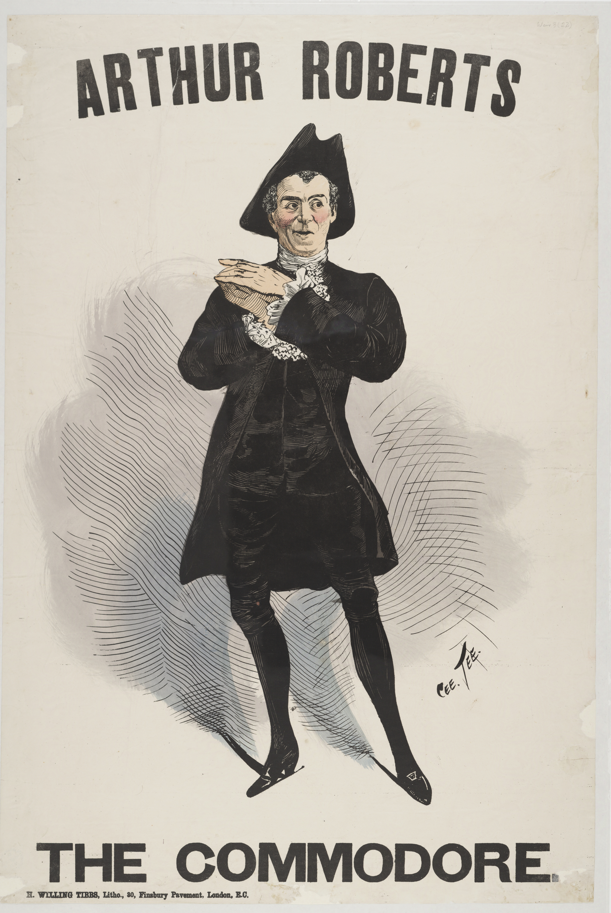 Arthur Roberts. Printed by H. Willing Tibbs, Lithographer, 30, Finsbury Pavement, London, E.C.